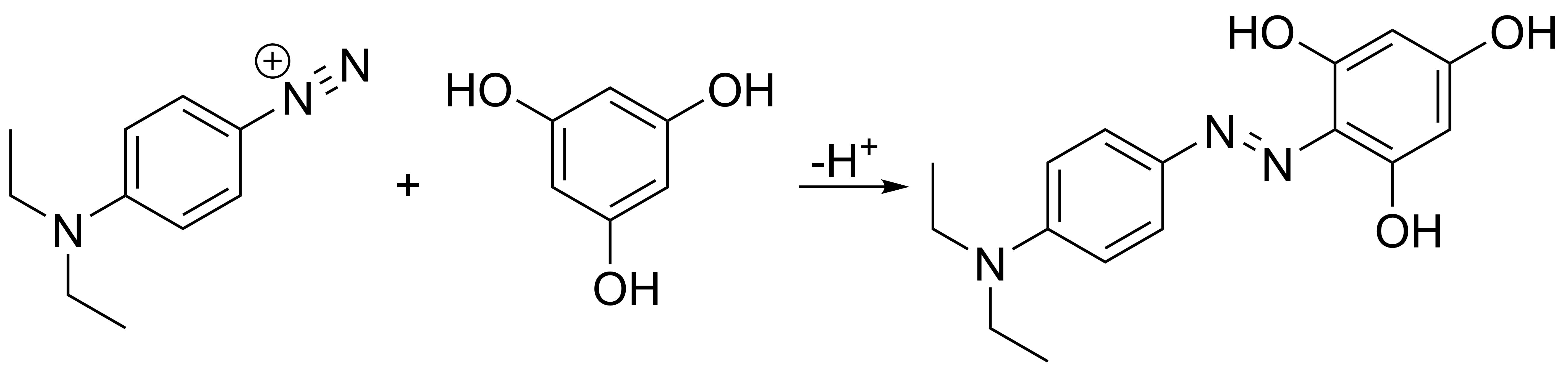 diazo coupling reaction